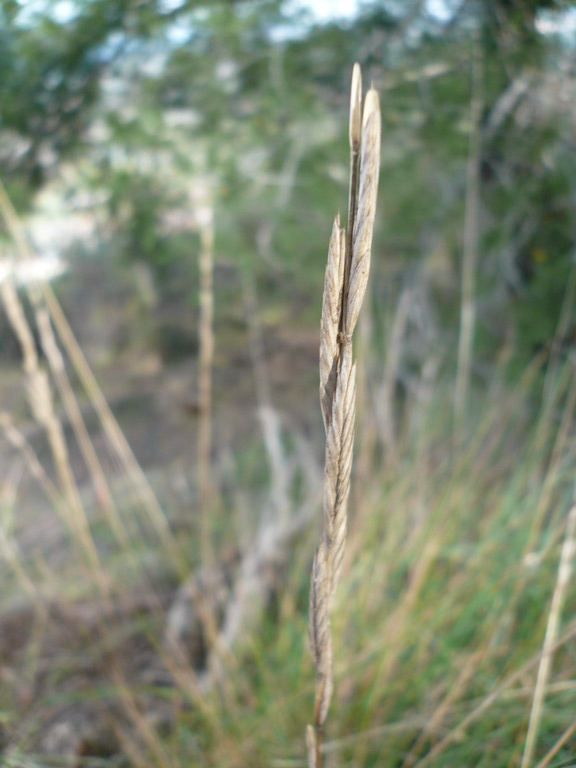 Brachypodium phoenicoides in winter. Serra de les Torretes, Martorell, Baix Llobregat, Catalonia. February 19th 2007.